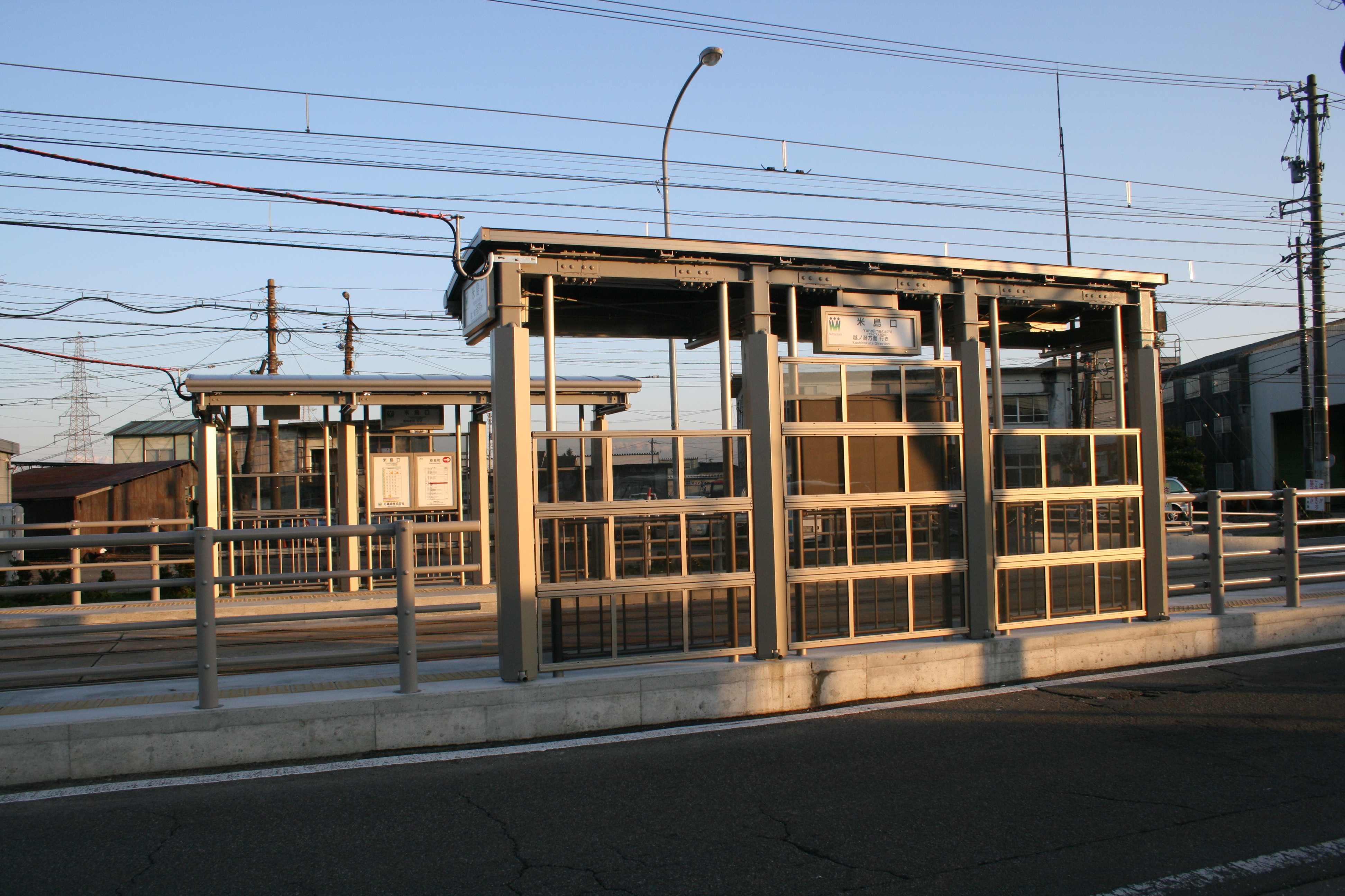 Manyo Line Yonejimaguchi Station